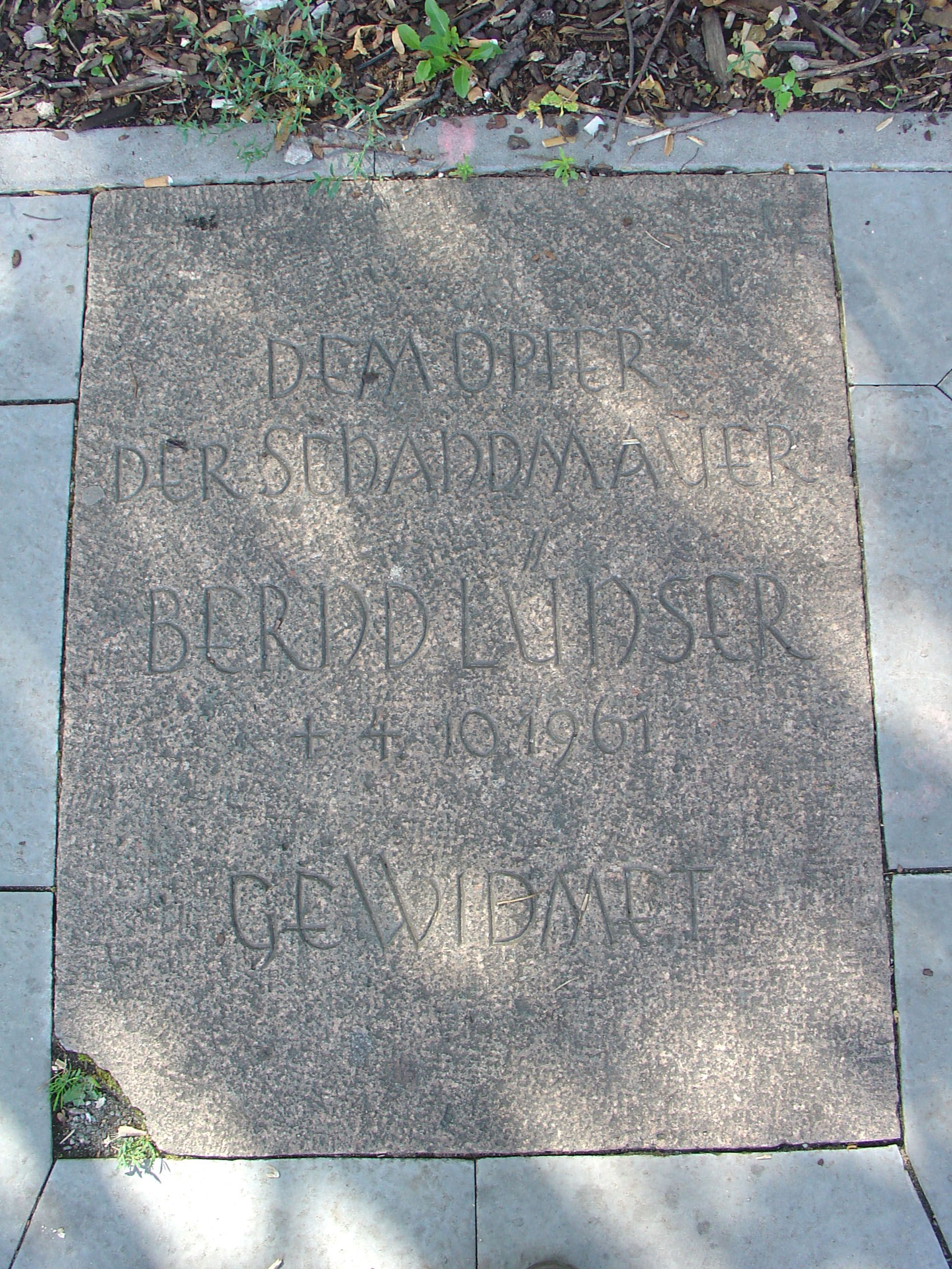 Monument for the Berlin Wall victim Bernd Lünser; Berlin, Bernauer Strasse. The text says: "Dedicated to the victim of the wall of shame, Bernd Lünser, † 4-Oct-1961".